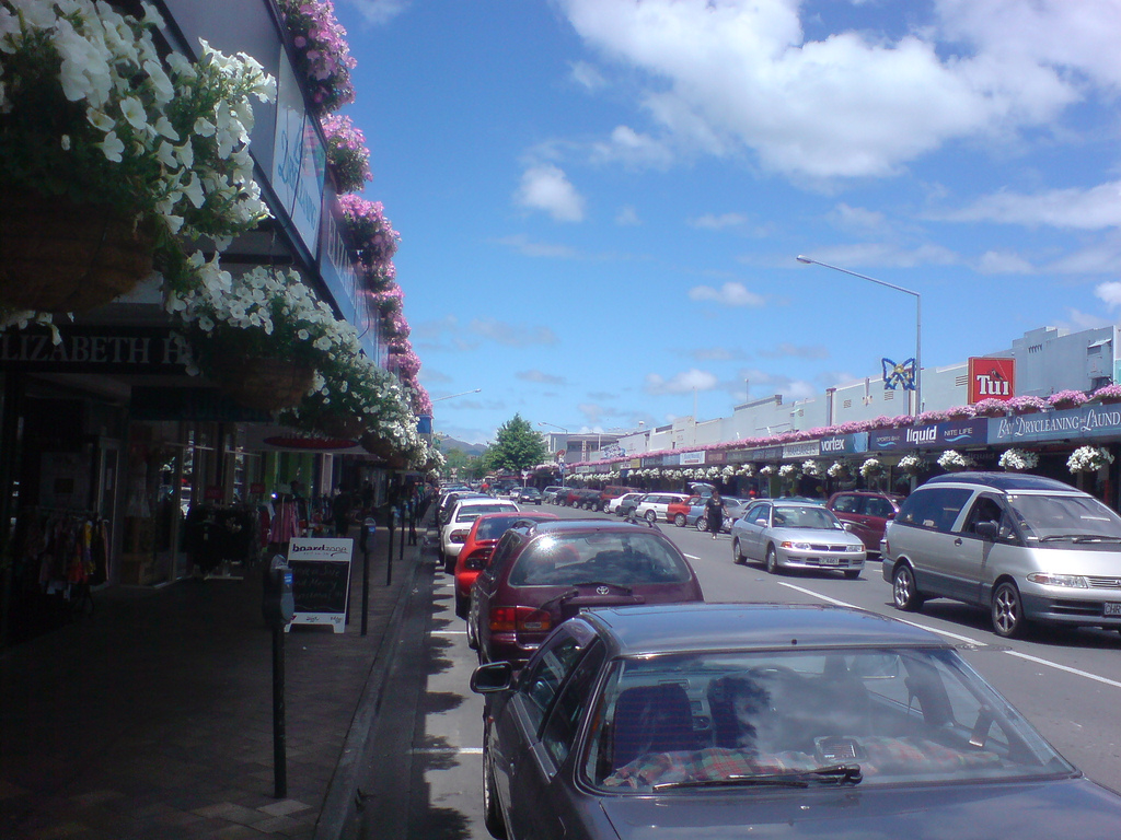 Heretaunga St West.